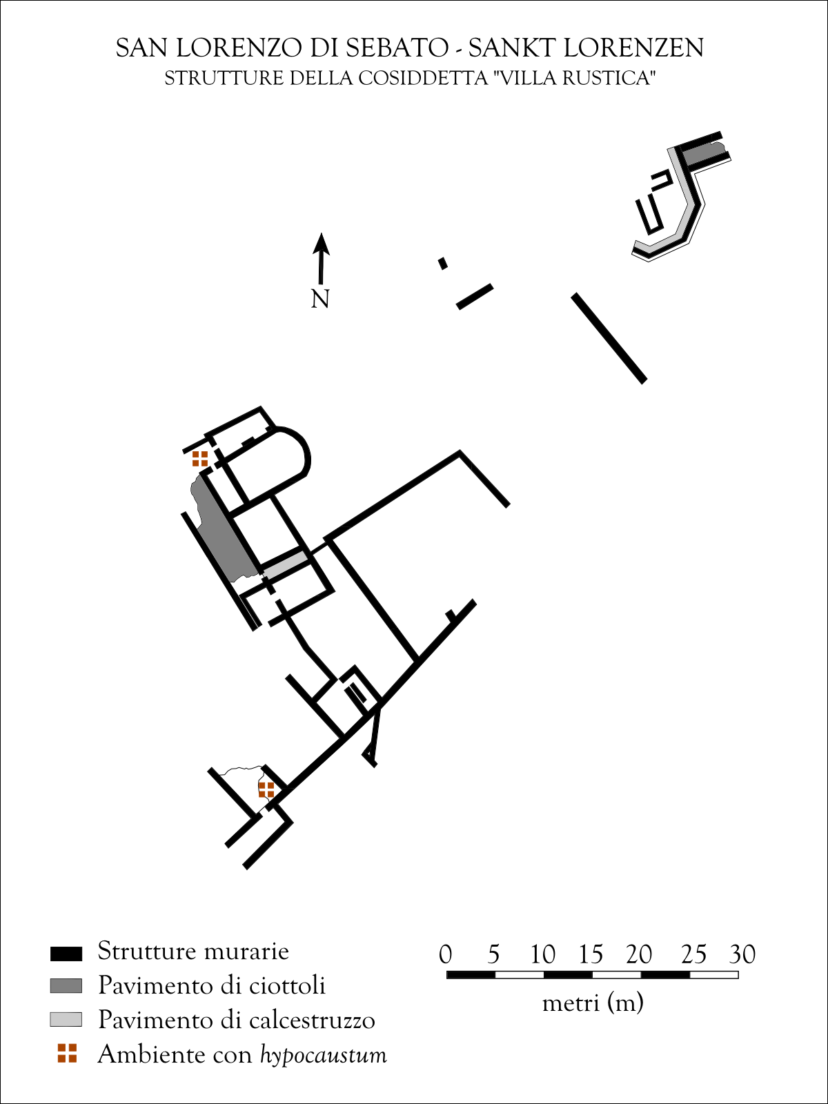 Plan of the "villa rustica" of Sebatum (San Lorenzo di Seabato/Sankt Lorenzen, South Tirol, Italy)